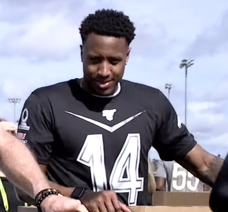 Courtland Sutton in 2020